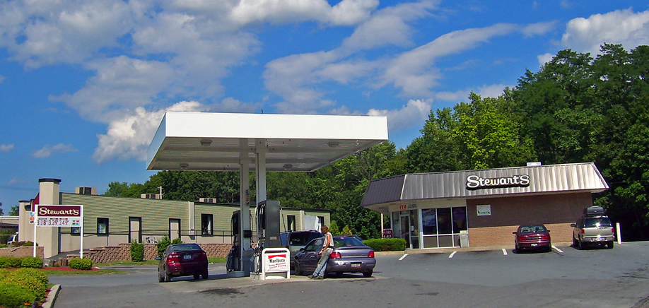 Typical Stewart's, seen here along NY 52 in Walden, New York